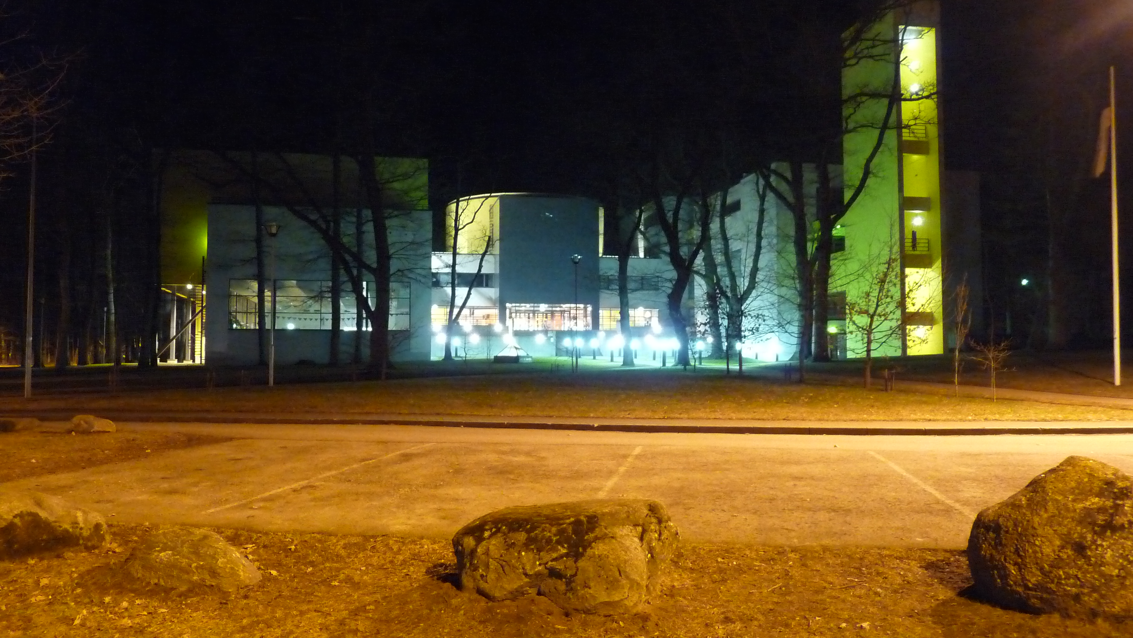 Rocca al Mare school in Tallinn, Estonia